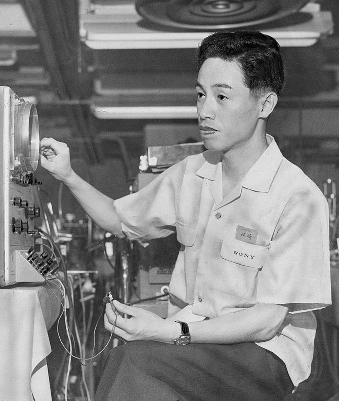 Japanese physicist Reona Esaki, also known as Leo Esaki works at Sony on June 27, 1959 in Tokyo, Japan